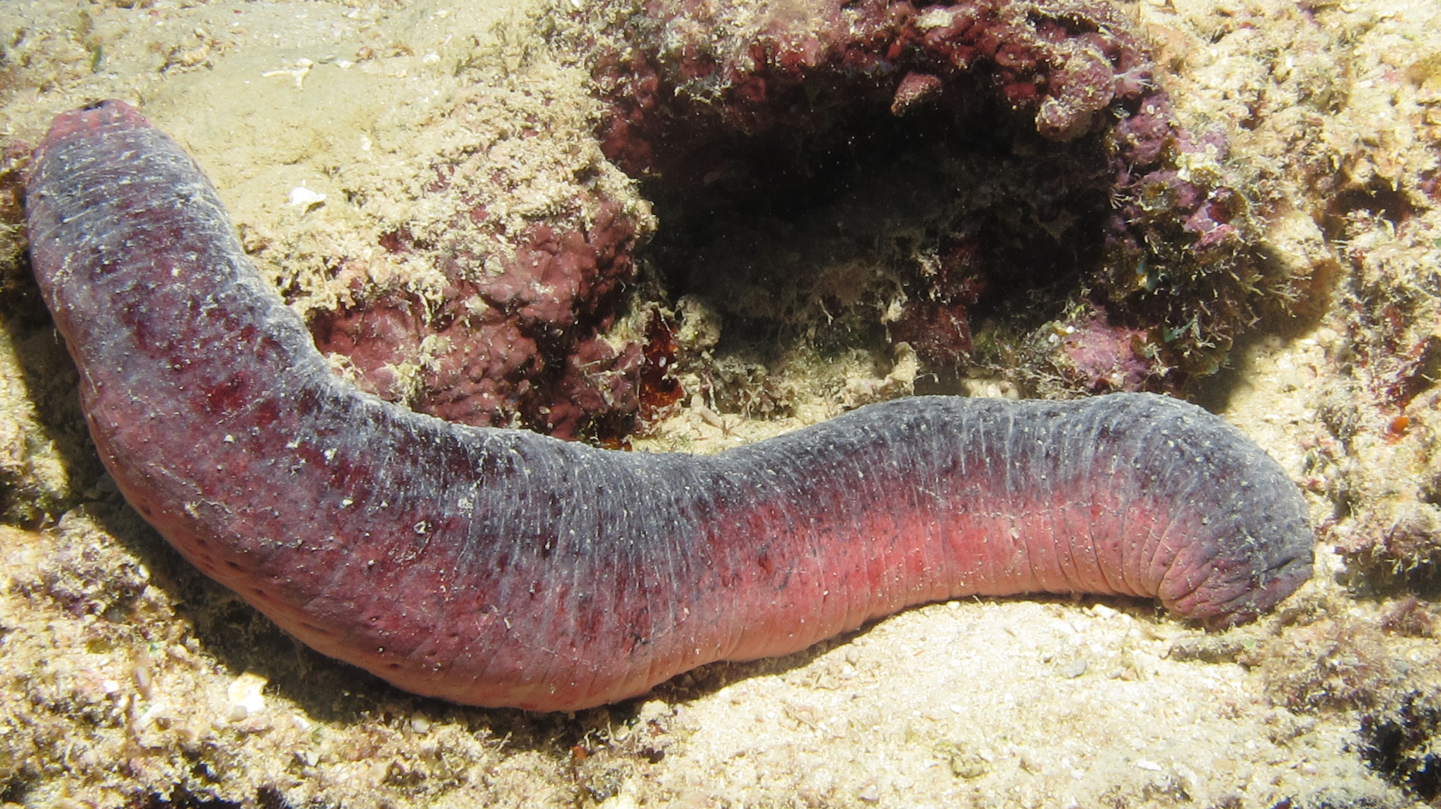 Edible Sea Cucumber (Holothuria edulis) on the sandy bottom, also known as a Red and Black Sea Cucumber.